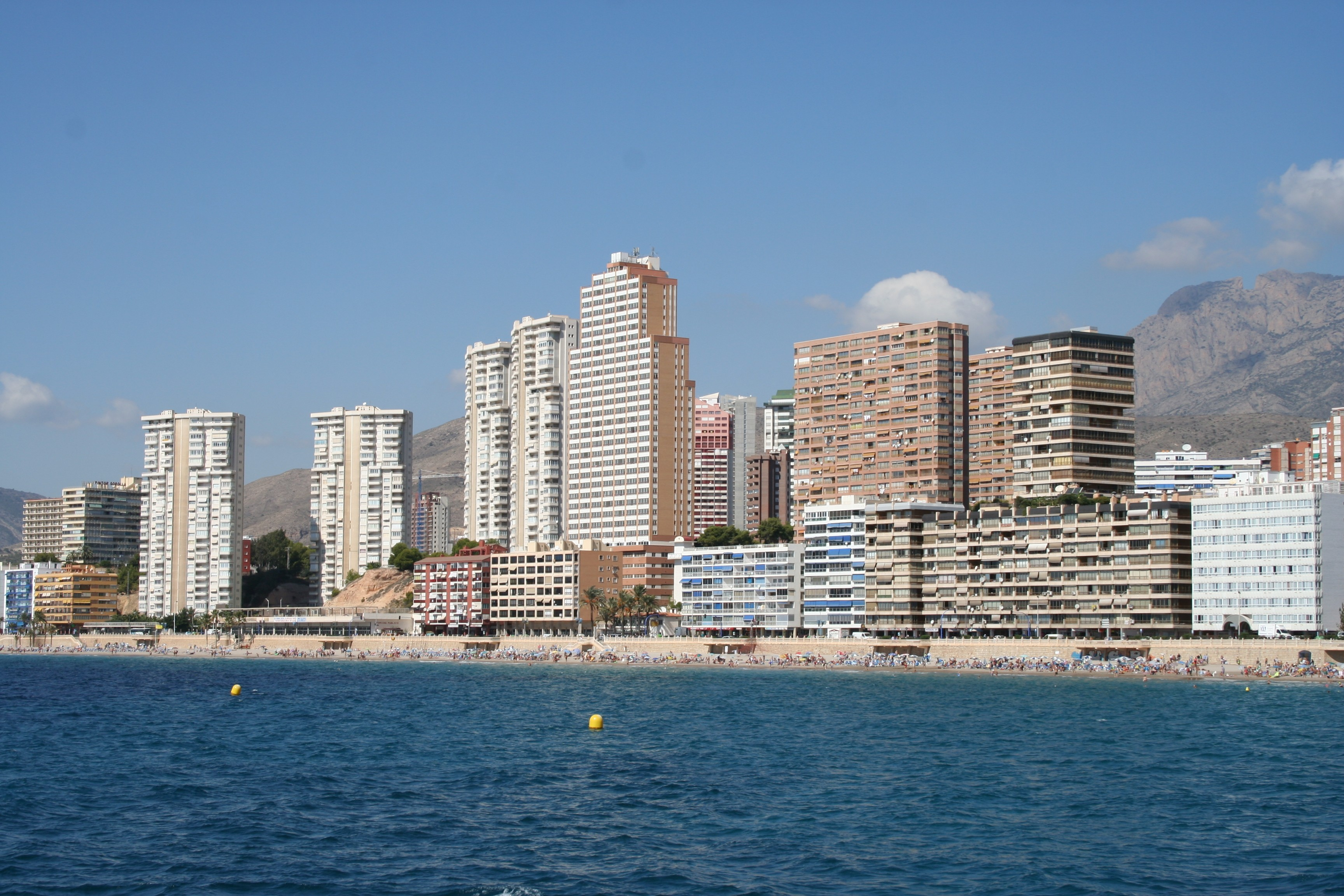 Poniente Beach's sight in Benidorm, Alicante (Spain)